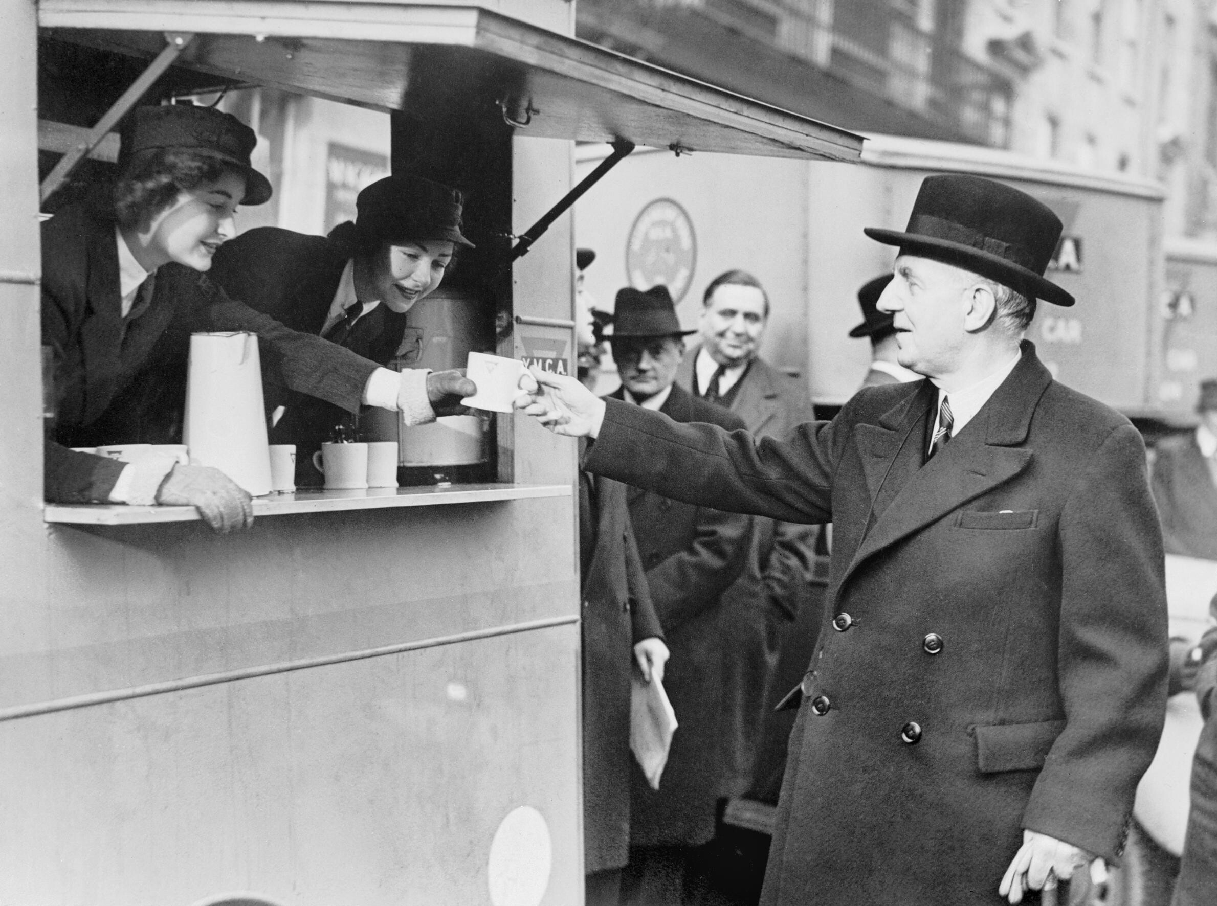 British Political Personalities 1936-1945 The Minister for Food between April 1940 and 11 November 1943, Lord Woolton, receiving a cup of tea from a mobile canteen.